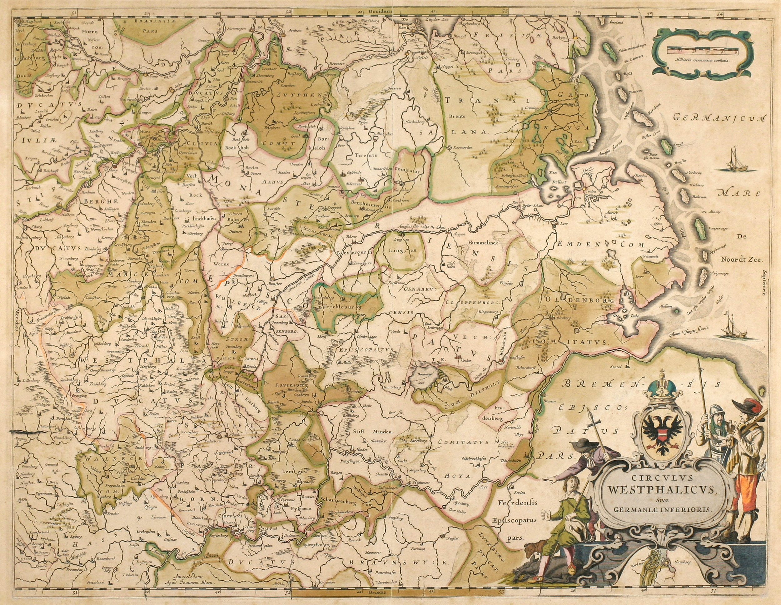 Map of the Lower Rhenish-Westphalian circle of the Holy Roman Empire. West is on top, north on the right.